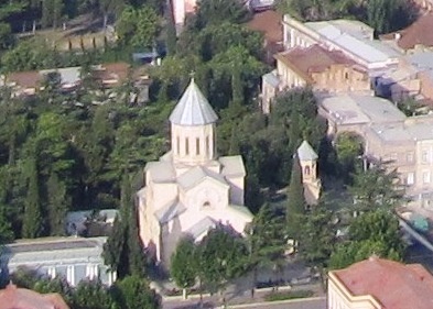 Kashueti church of St. George in Rustaveli Avenue, Tbilisi, Georgia. View from Mt. Mtatsminda